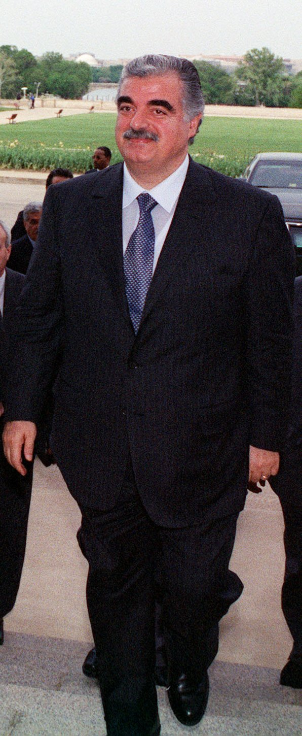 Secretary of Defense Donald H. Rumsfeld (left) escorts Lebanese Prime Minister Rafiq Hariri into the Pentagon on April 25, 2001. Rumsfeld and Hariri will meet to discuss a range of regional policy and security issues of interest to both nations.